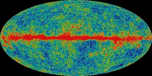 universe image on w band